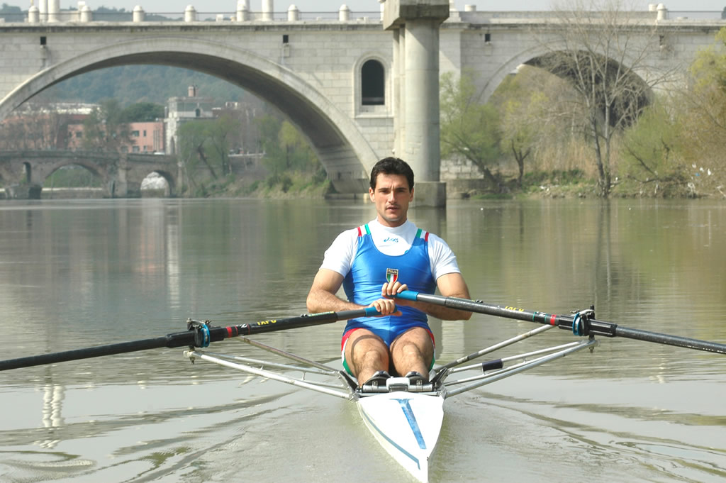 Lorenzo Porzio sul Tevere.